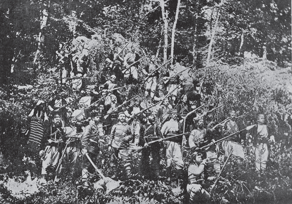 Cheta of IMARo with Nake Yanev and Debar-Kichevo voevodas Luka Dzherov